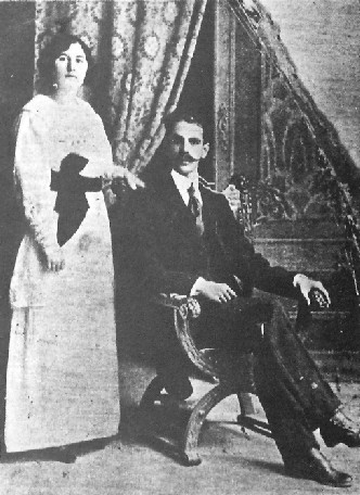 Rómulo Gallegos and his wife Teotiste Arocha Egui.